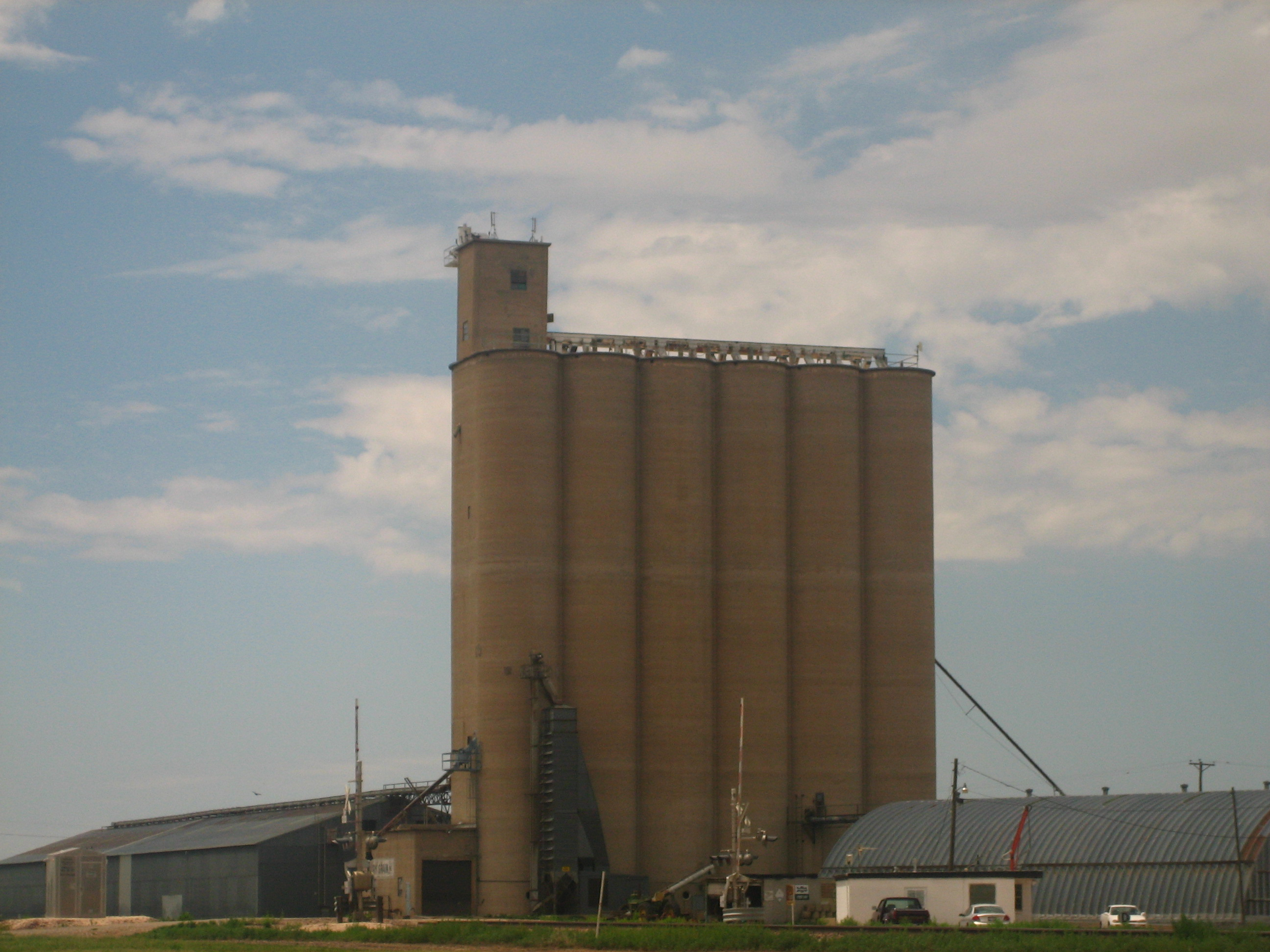 Grain elevator in Dalhart, Texas.